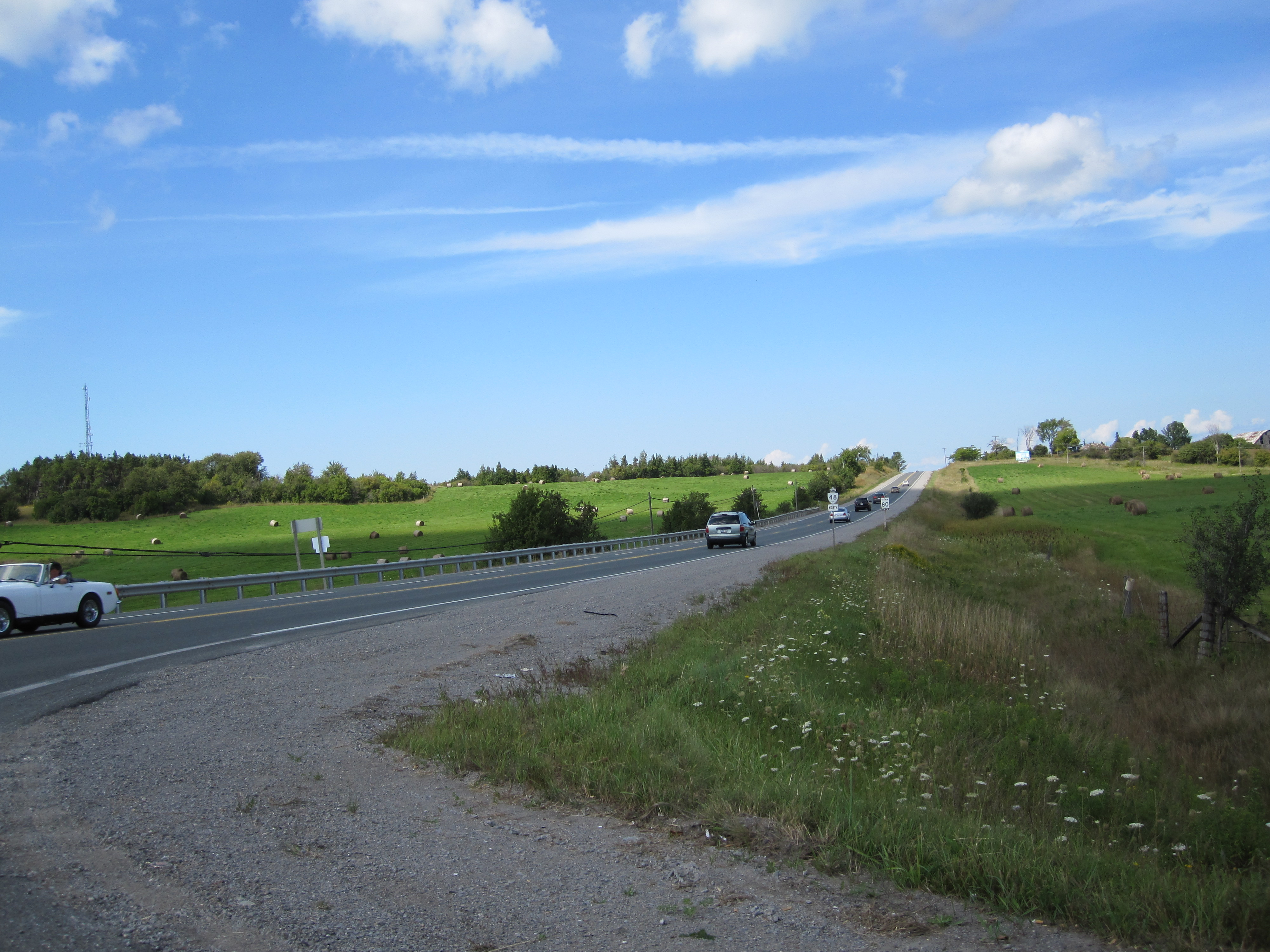 Highway 48 in Ontario, Canada.